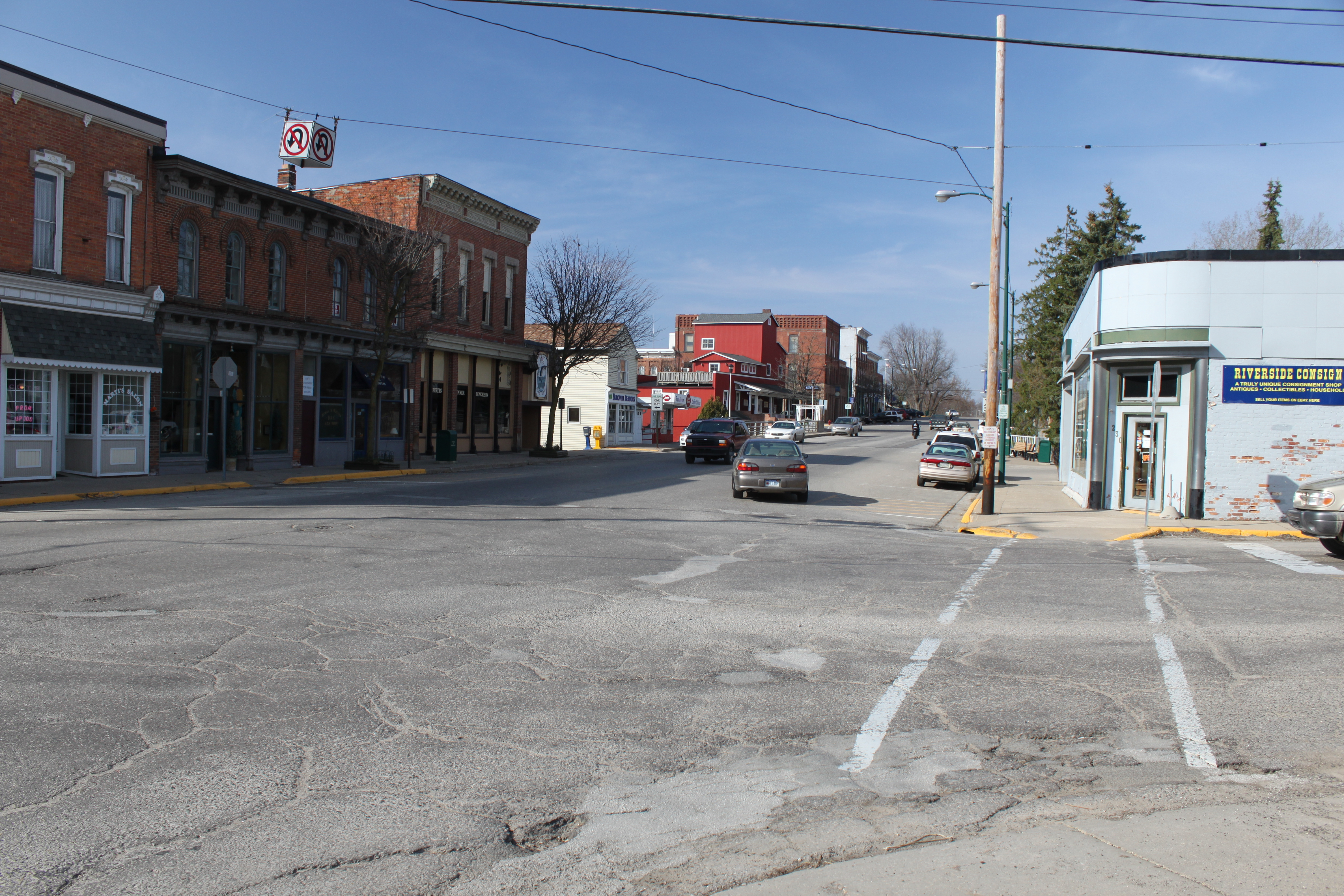 Manchester, Michigan, Main St.